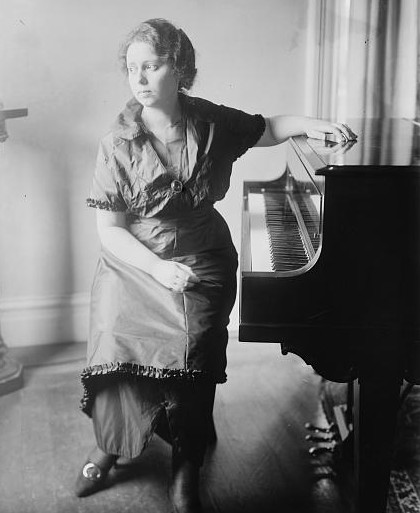 Elisabeth Schumann (1888 - 1952), German soprano, seated at piano.